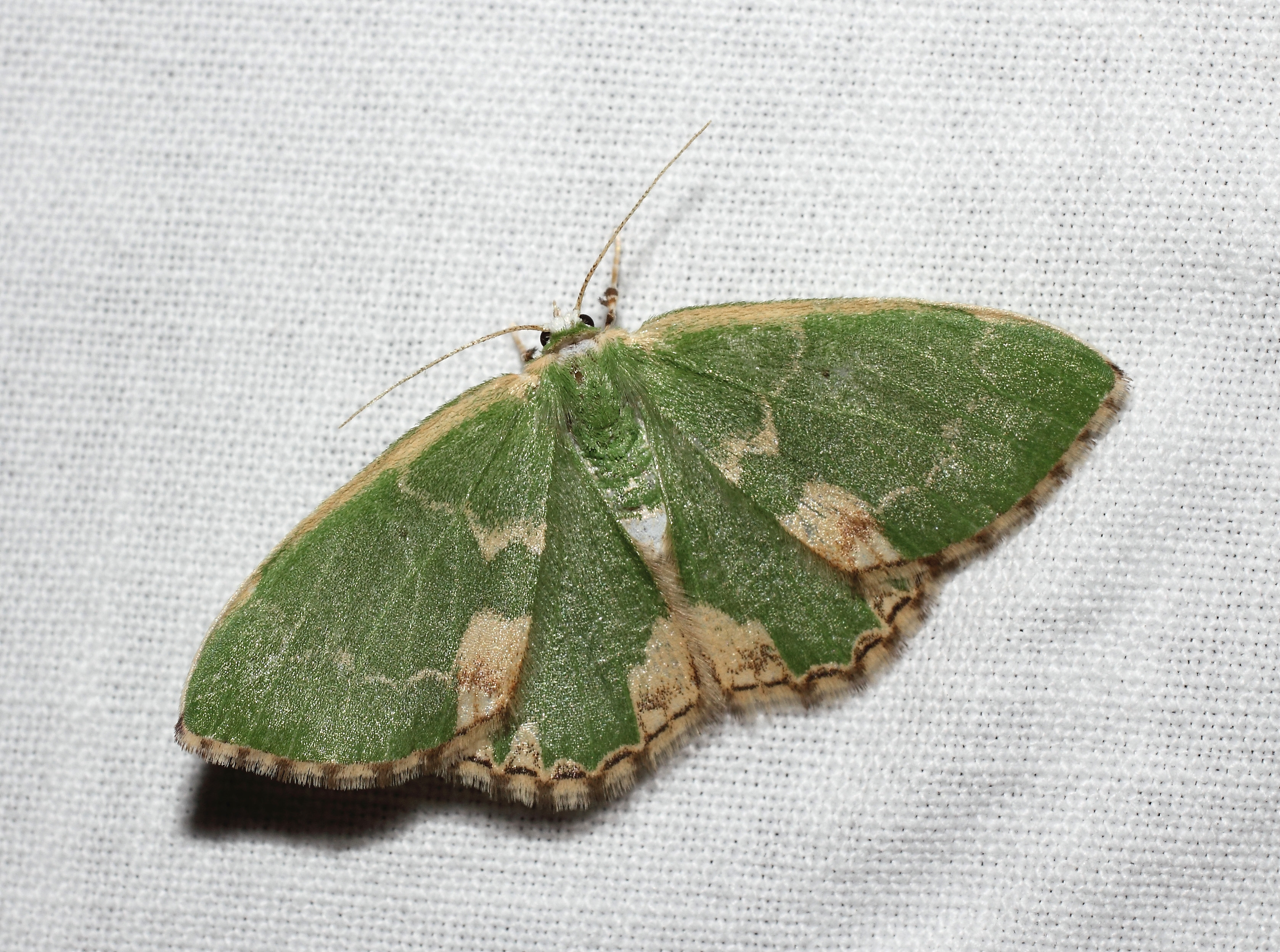 Comibaena bajularia, picture taken in Styria, Austria